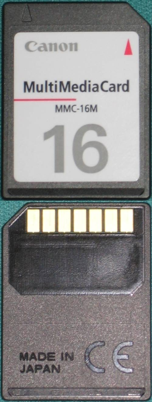 Multi Media Card - 16 Megabyte flash memory